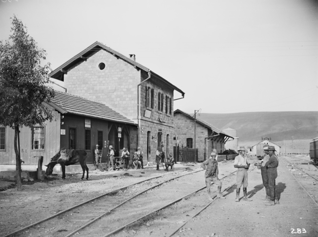 AWM caption : Ottoman Empire: Palestine, North Palestine, Lake Tiberias, Semakh. Australian soldiers at the railway station at Semakh, South Coast, Sea of Galilee. It was a scene of great slaughter of the enemy. Original caption: "Ottoman Empire: Palestine, North Palestine, Lake Tiberias, Semakh."